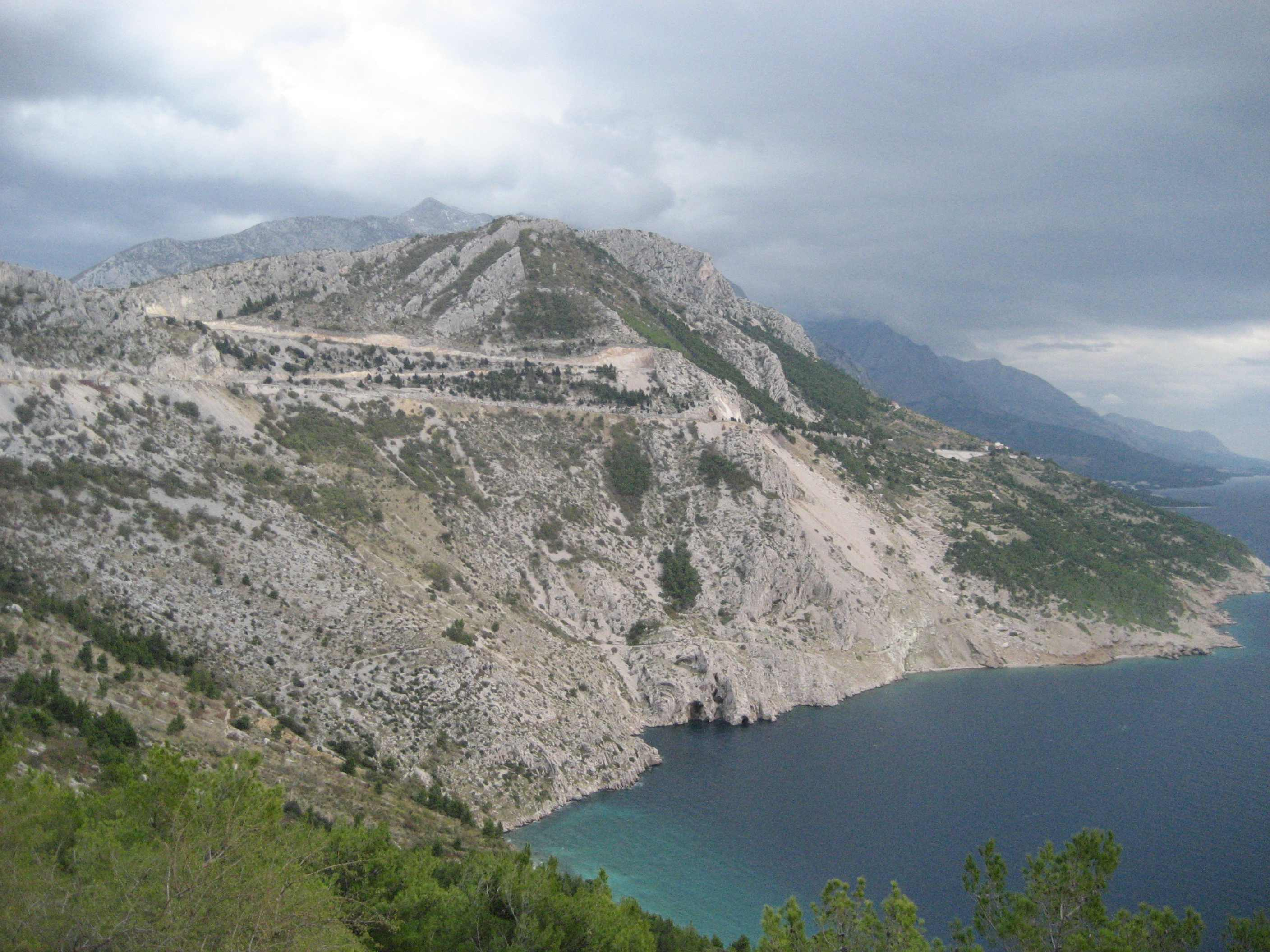 Jadranska Magistrala, road along the croatian coaast. At the sealine: black holes are the submarine resurgence of a karst spring. In Croatian language "vrulja".